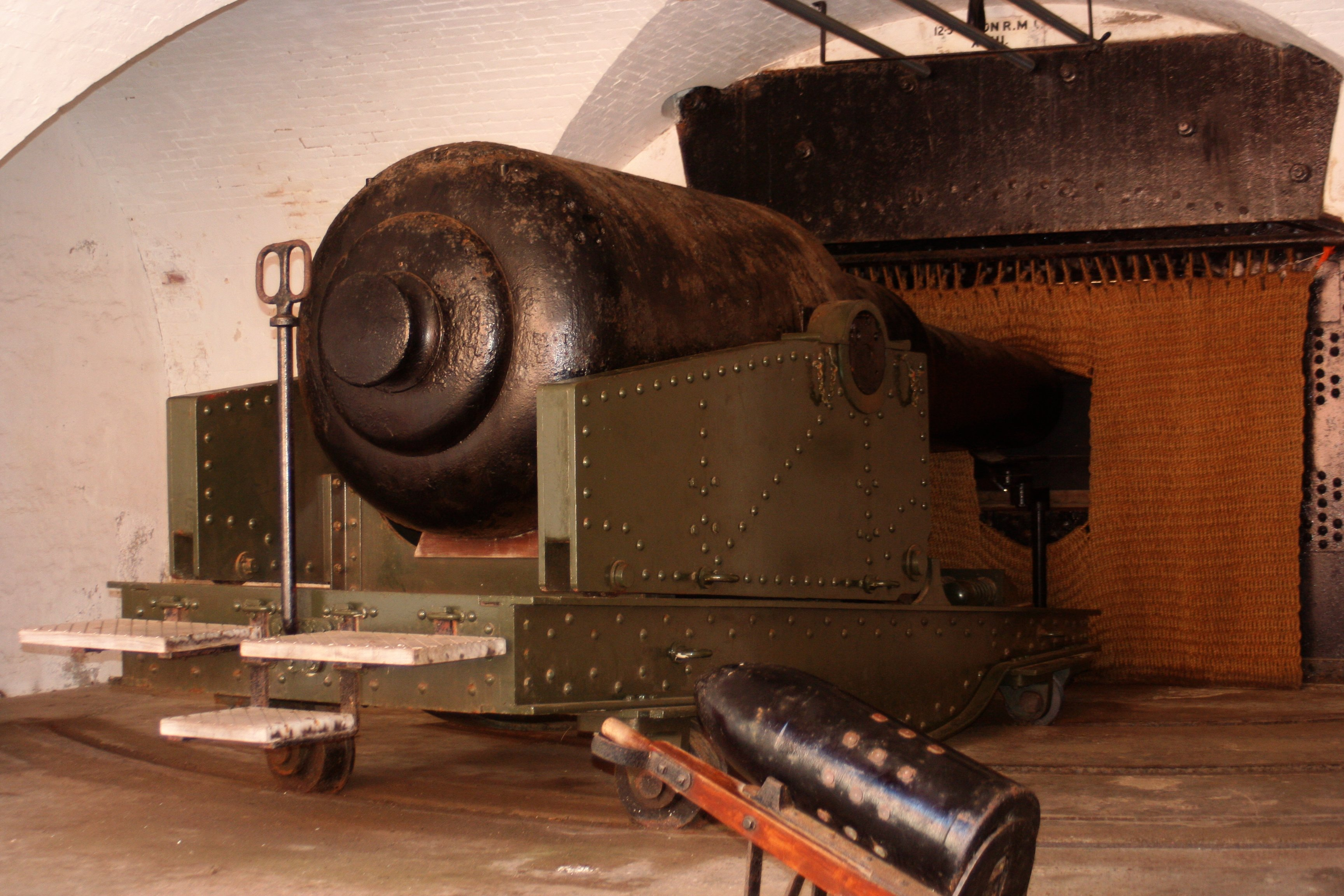 One of the RML 12.5 inch 38 ton guns at Hurst Castle, used for coastal defense in the late 1800s through World War I. Capable of firing an 820 lb shell nearly 3.5 miles. Salvaged from the shore of the Isle of Wight.